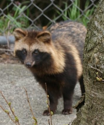 Cropped version of an image of a tanuki from Iwanafish. Altered to better display the animal; Nyctereutes procyonoides, commonly know as a Tanuki or Japanese Raccoon Dog.